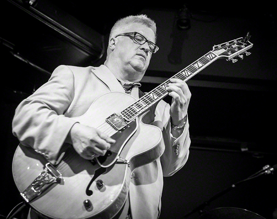 Staffan William-Olsson performs with Staffan William-Olsson Trio at the stage of Herr Nilsen. The concert was part of the Oslo Jazz Festival in Norway and took place on 20. August 2016. Lineup:Terje Gewelt (double bass)Magnus Sefaniassen Eide (drums)Staffan William-Olsson (guitar)